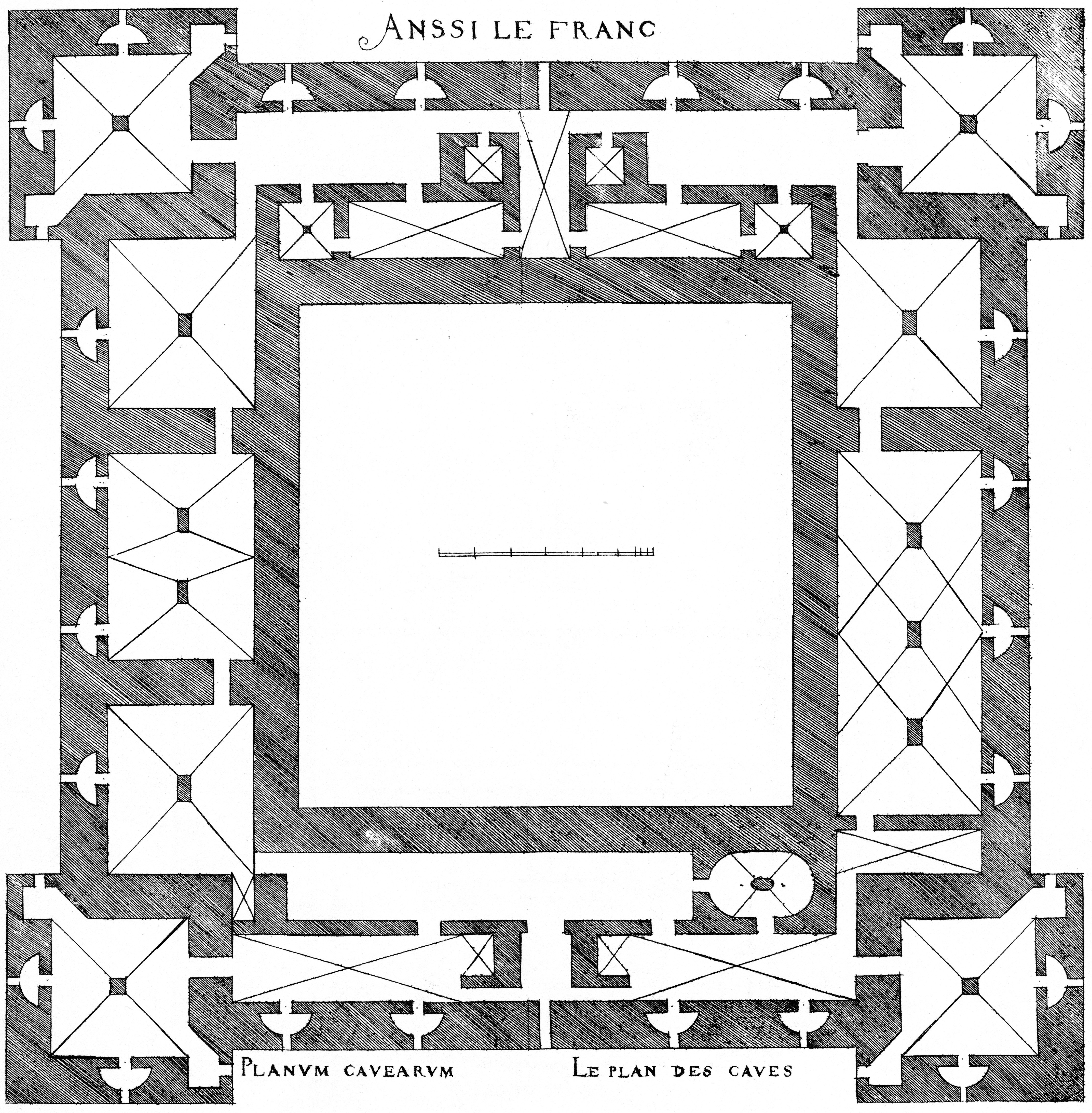 Engraving from Le premier volume des plus excellents Bastiments de France by Jacques I Androuet du Cerceau: Château d'Ancy-le-Franc. Plan of the cellar